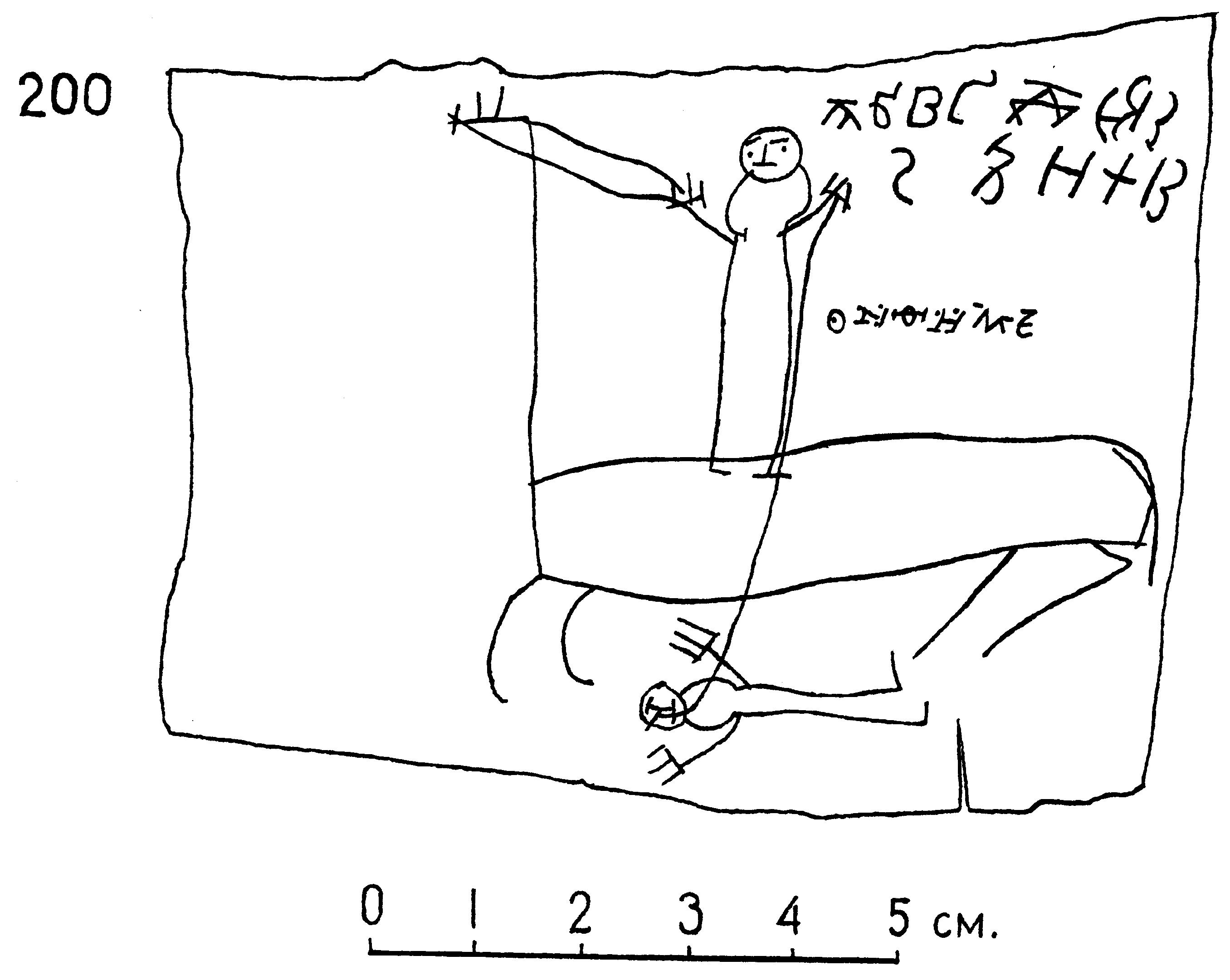 Birch bark drawing of a Russian boy Onfim, about 1260, Novgorod